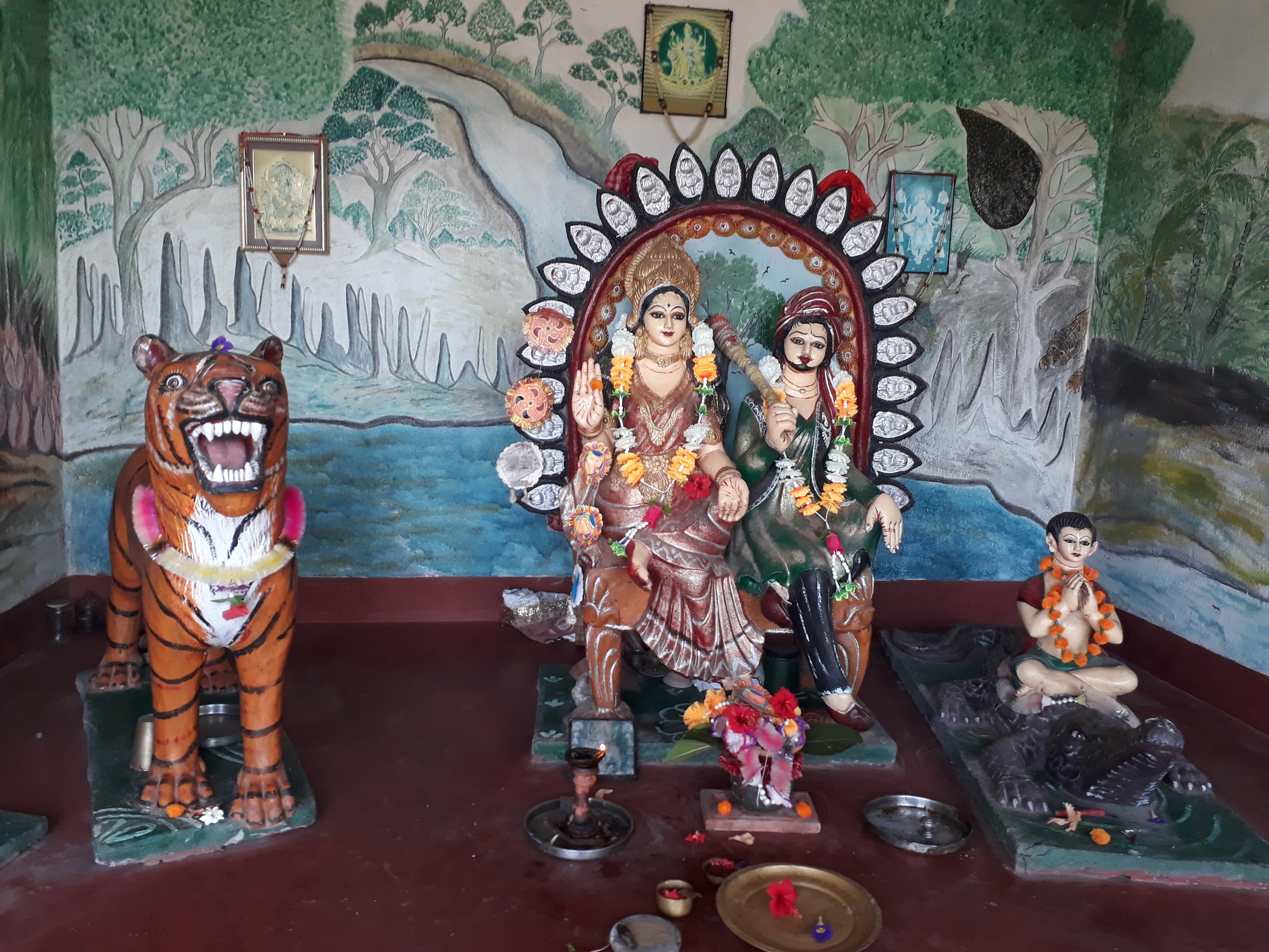 Bonobibi in Sundarban, West Bengal